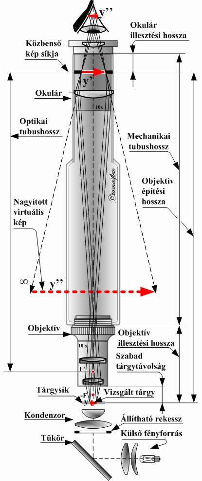 Optical microscope schematic diagram.